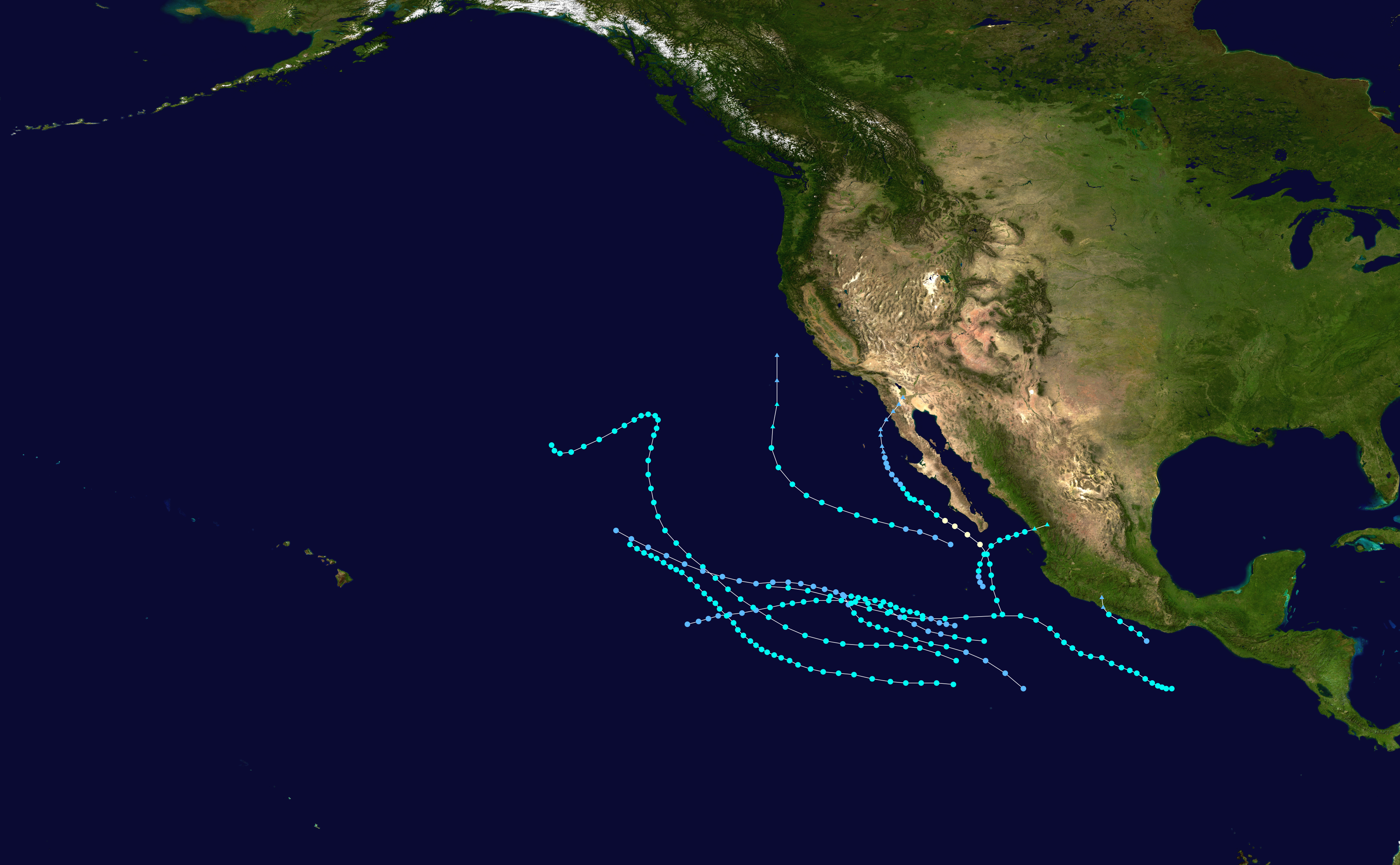 This map shows the tracks of all tropical cyclones in the 1965 Pacific hurricane season. The points show the location of each storm at 6-hour intervals. The colour represents the storm's maximum sustained wind speeds as classified in the Saffir-Simpson Hurricane Scale (see below), and the shape of the data points represent the type of the storm. Saffir–Simpson hurricane wind scale Tropical depression≤38 mph≤62 km/h Category 3111–129 mph178–208 km/h Tropical storm39–73 mph63–118 km/h Category 4130–156 mph209–251 km/h Category 174–95 mph119–153 km/h Category 5≥157 mph≥252 km/h Category 296–110 mph154–177 km/h Unknown Storm typeTropical cycloneSubtropical cycloneExtratropical cyclone / Remnant low / Tropical disturbance